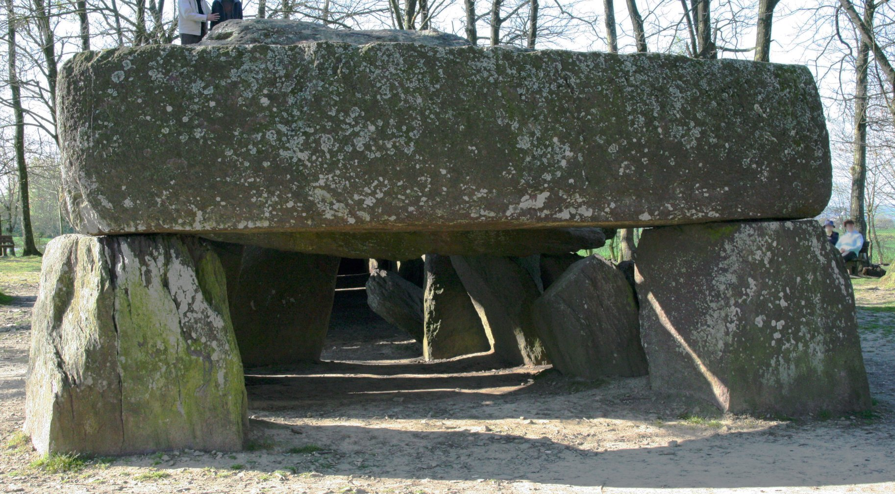 Gantry the "Roche-aux-Fées", village of Essé, Ille-et-Vilaine, Brittany, France. It's a dolmen (gallery grave), the biggest in France, built near 2500 ~ 2000 B.C.